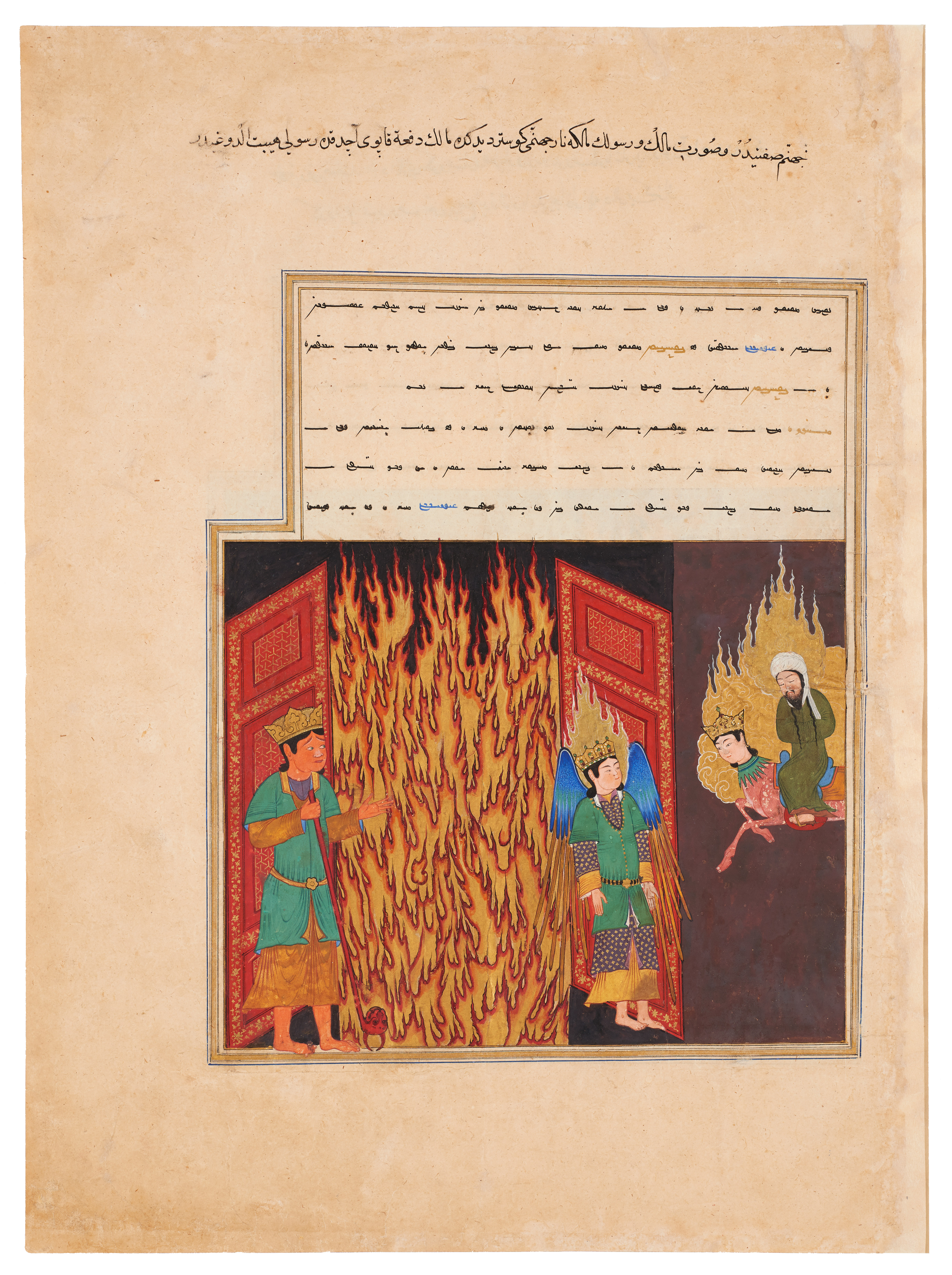 Muhammed (sitting right on Buraq) requests the Angel Maalik to open the gates (the red Doors) to hell during his heavenly Journey. The miniature belongs to "The David Collection, Copenhagen", inventory number "14/2014". The photographer is "Pernille Klemp".